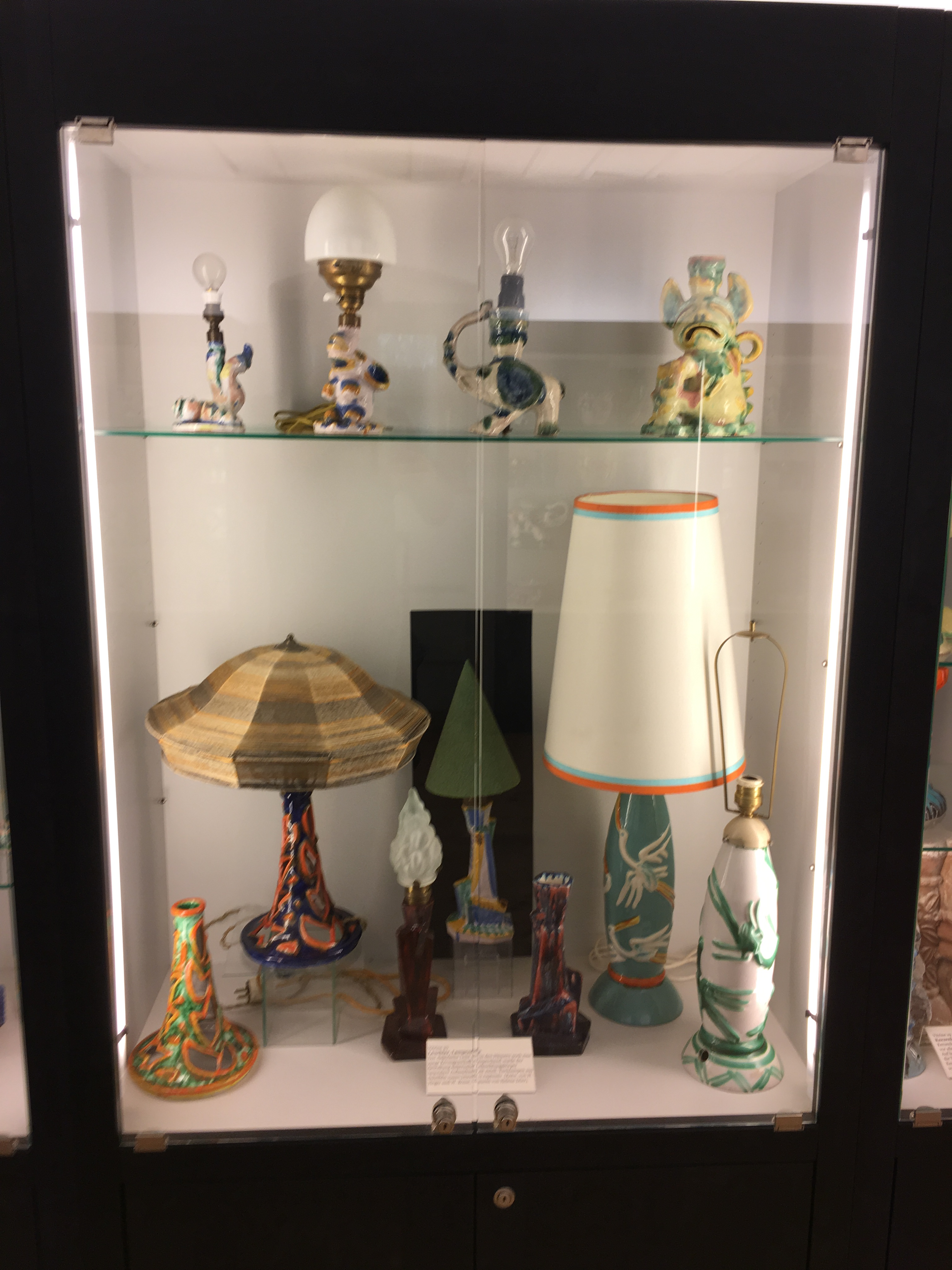 Tonindustrie Scheibbs Lampen